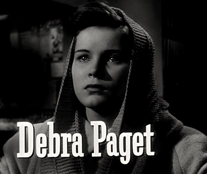 Debra Paget in Cry of the City - trailer (cropped screenshot)